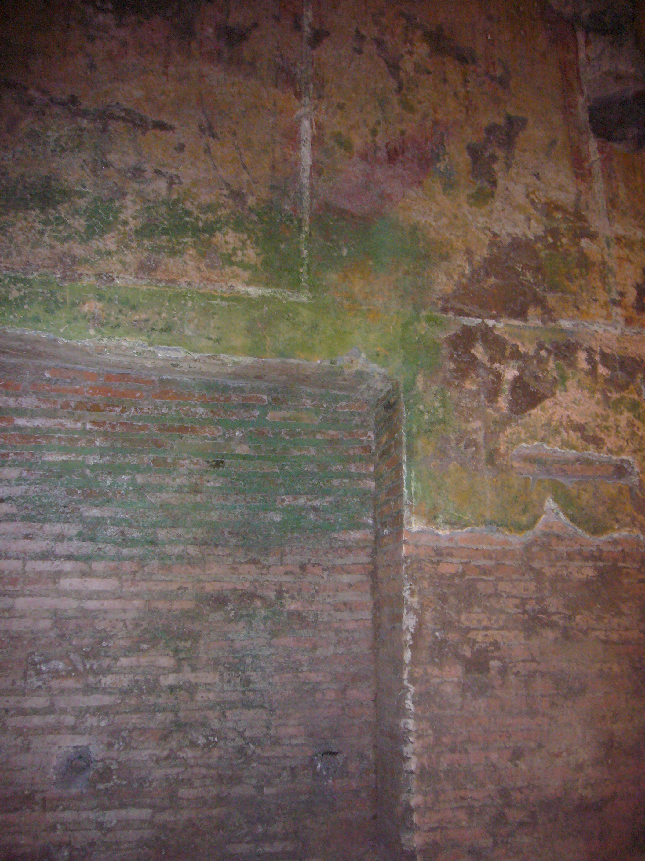 Algae damage in the newly reopened Domus Aurea, Rome.